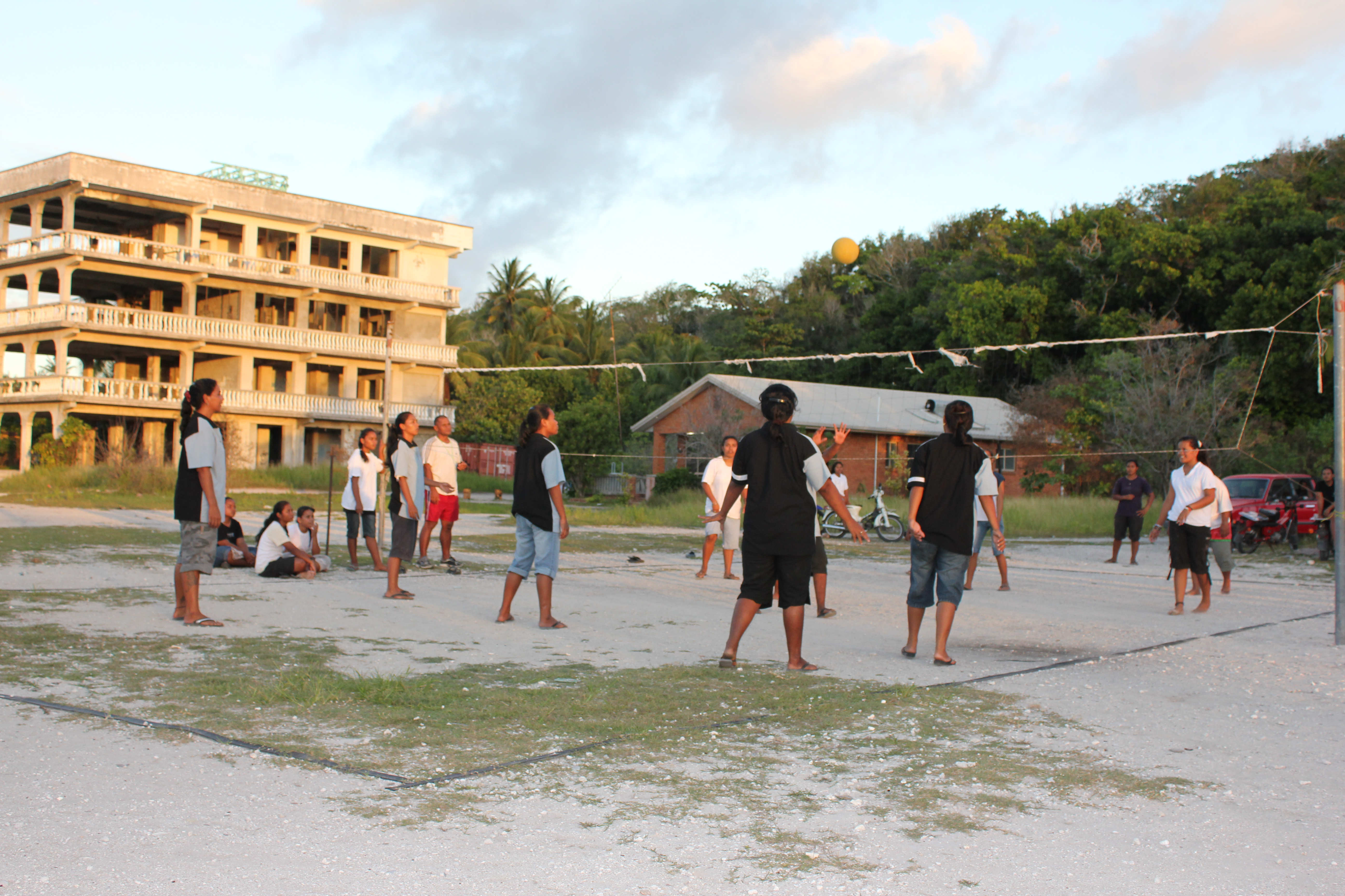 Local game of volleyball, Nauru 2007. Photo: AusAID